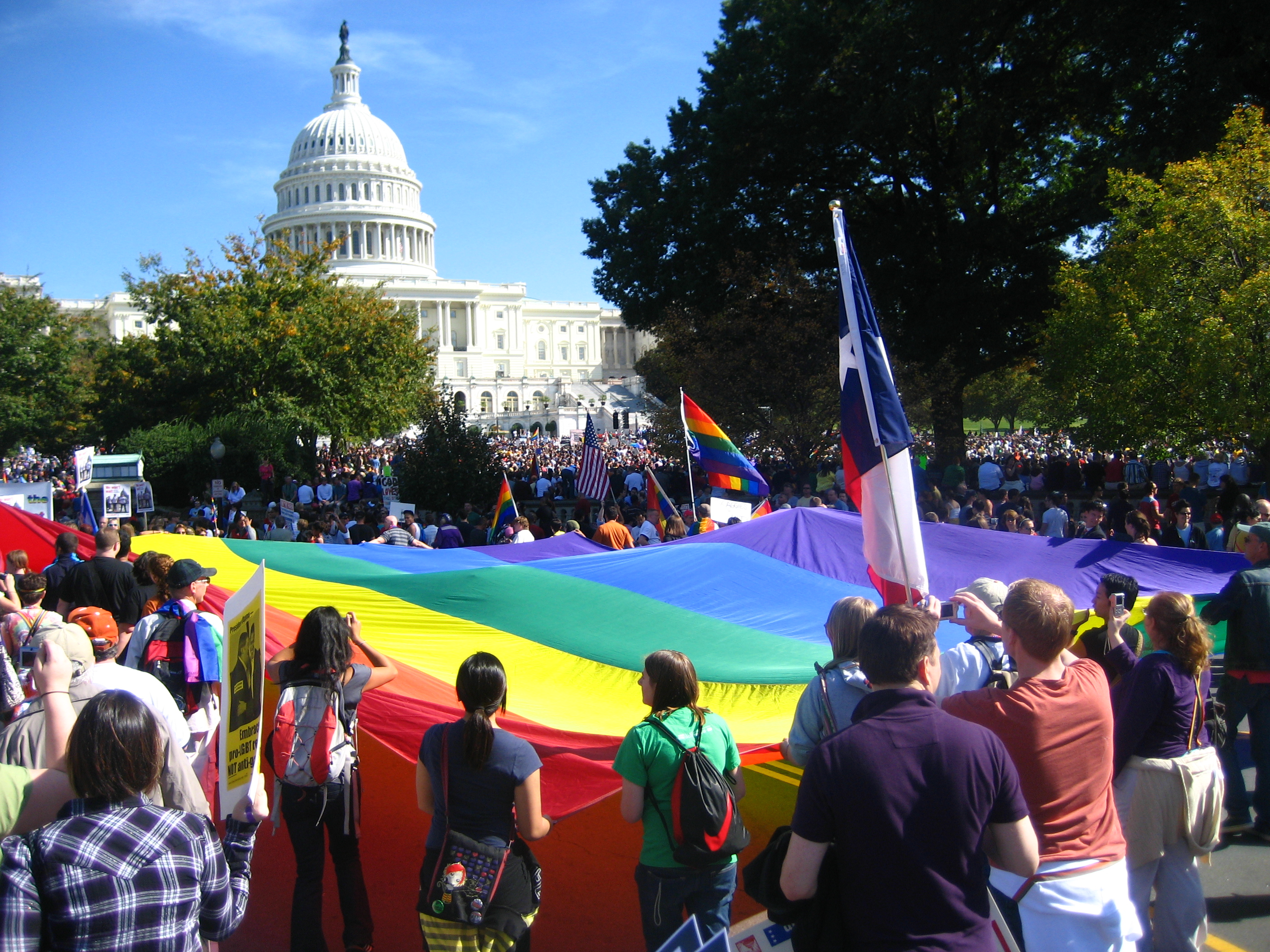 National Equality March 2009